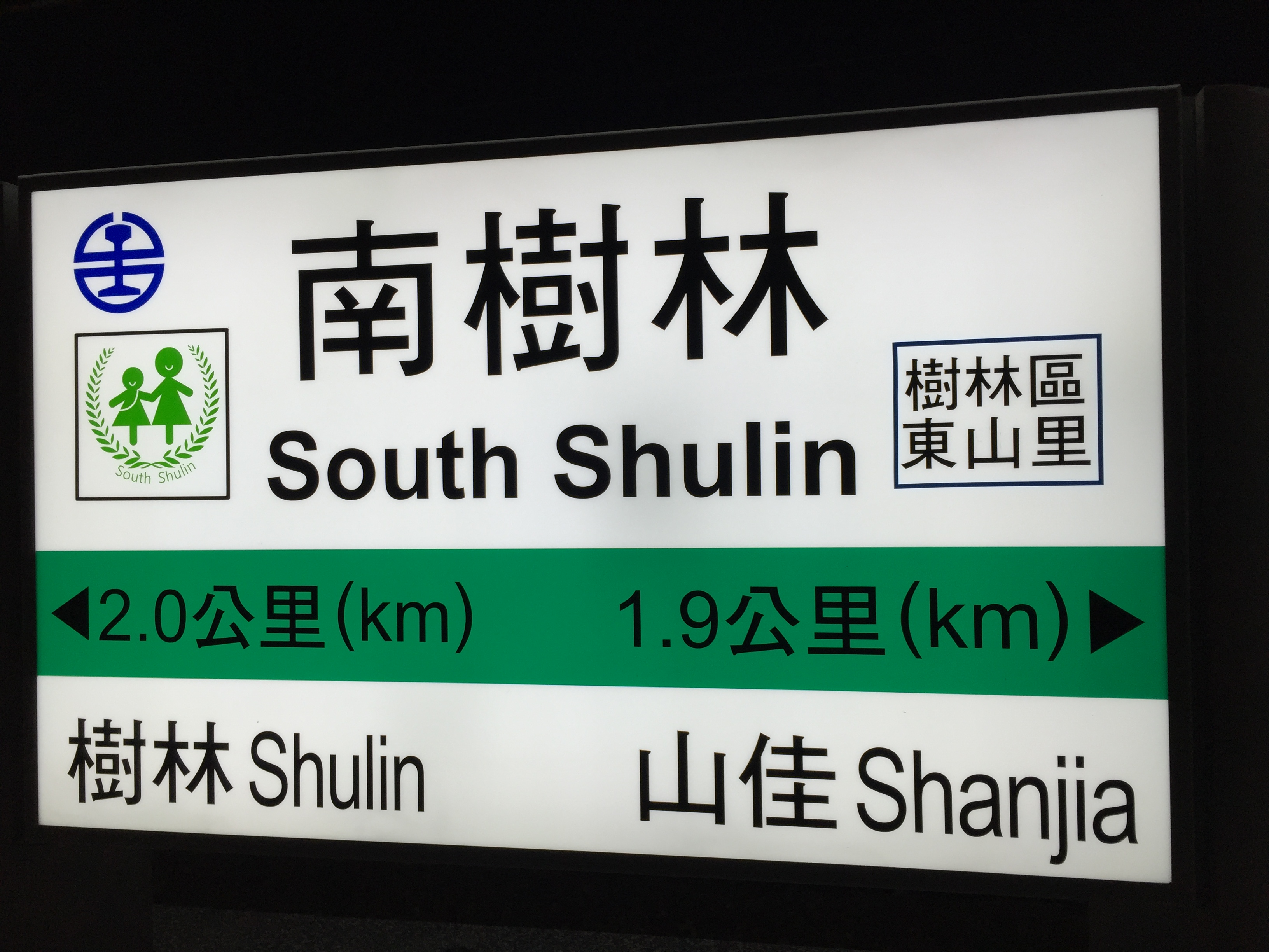 Running in board of South Shulin Station